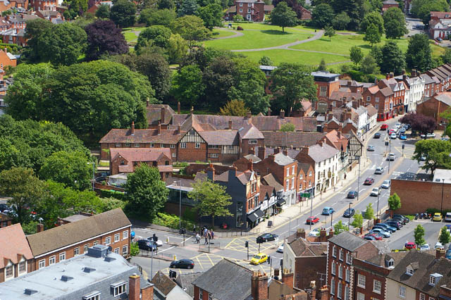 View towards the Commandery and Fort Royal from cathedral tower